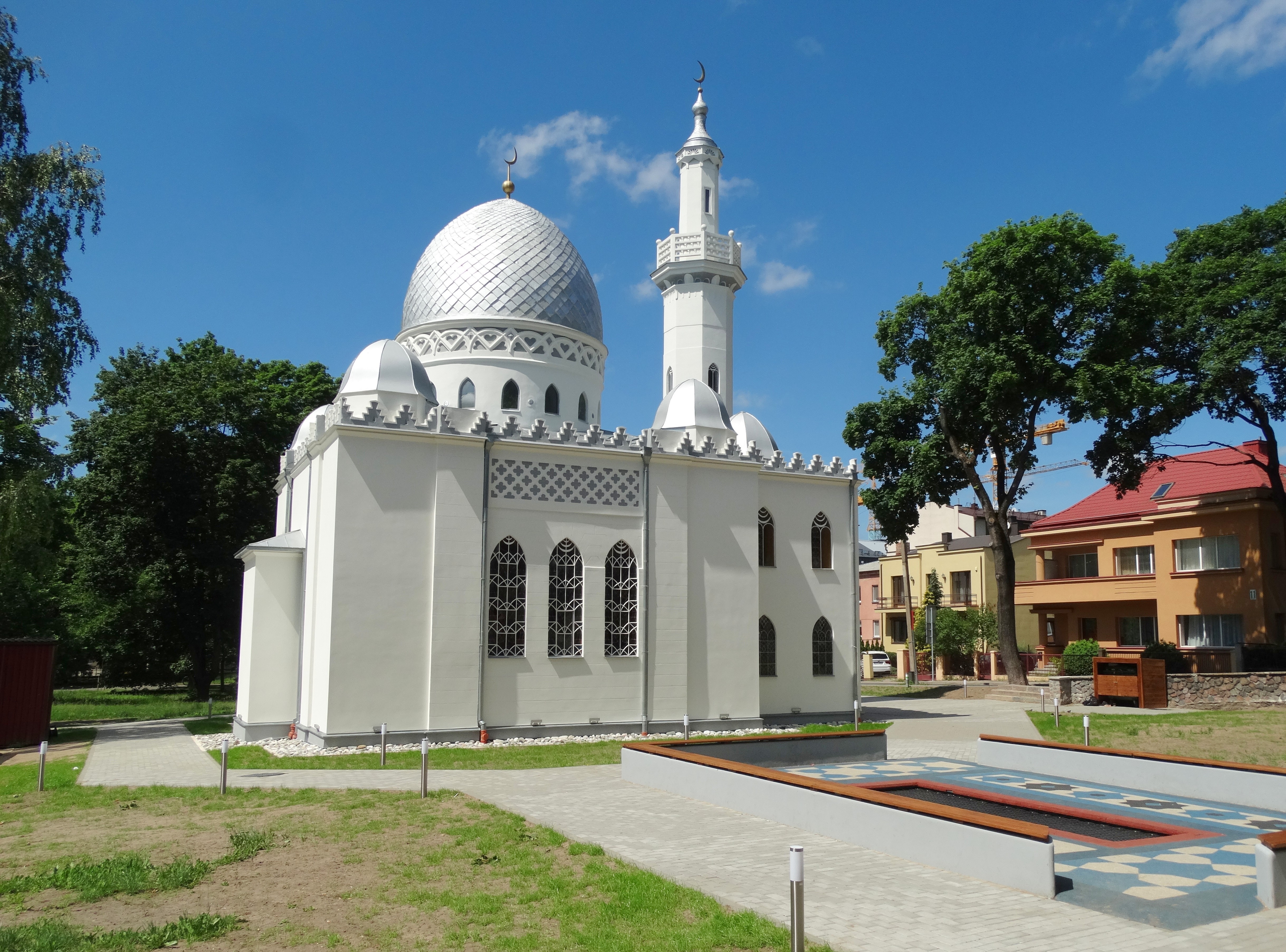 Mosque, Kaunas, Lithuania